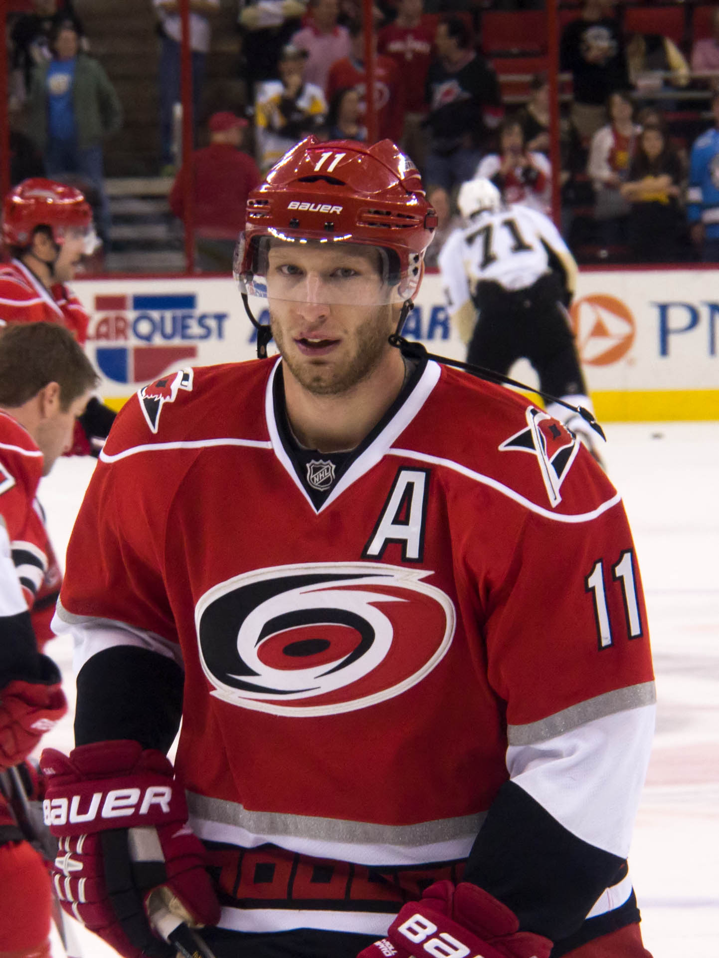 Jordan Staal, Canadian ice hockey player